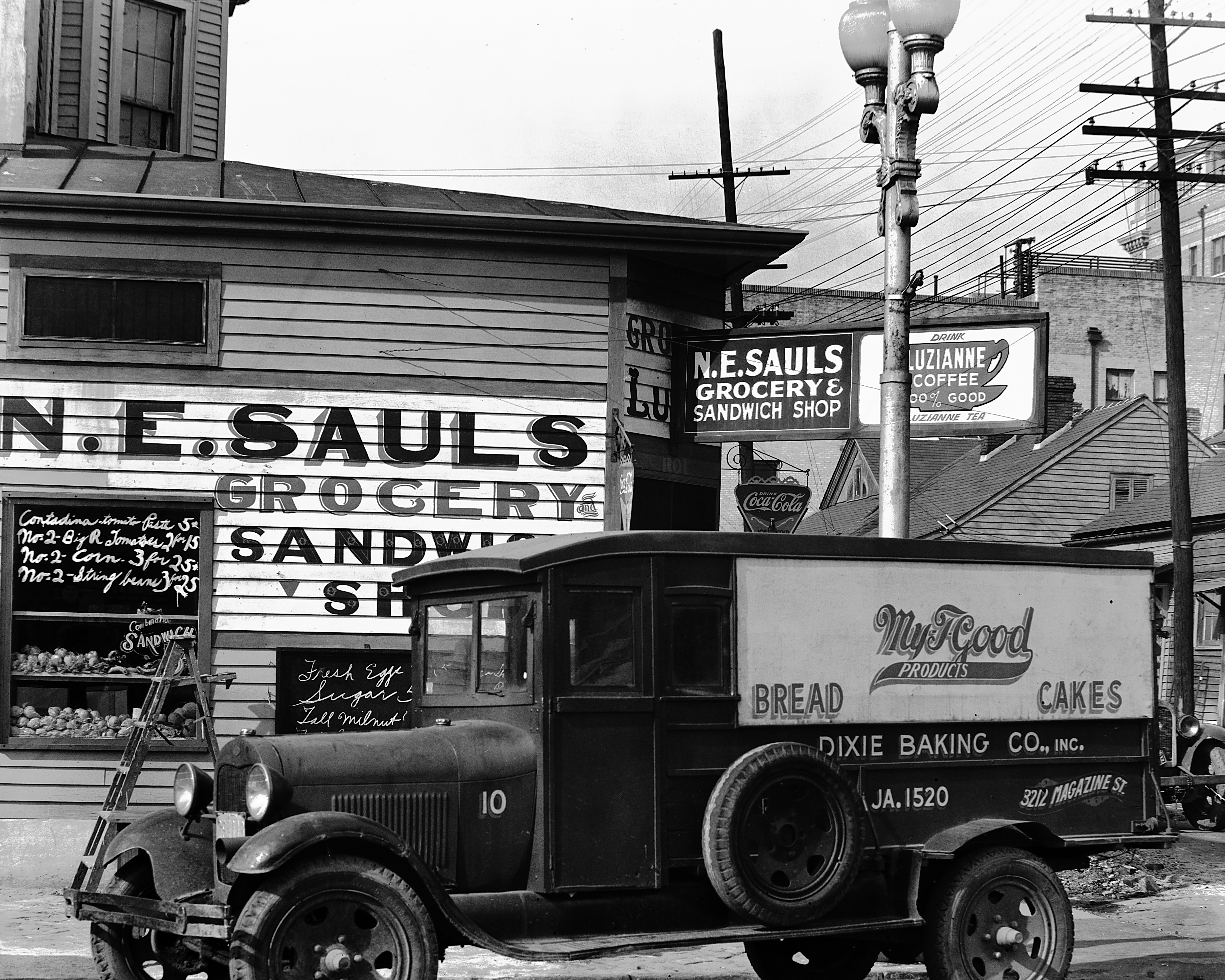 New Orleans street corner. Louisiana. Mid 1930s photograph by Walker Evans of "N.E.Sauls Grocery & Sandwich Shop", with truck from "Dixie Baking Company" parked in front. Visible are advertising signs for Luzianne Coffee, Coca-Cola. Truck looks to be a Ford Model AA, at least the front part; was this a standard but less seen cab and bed, or customized? Note: This is one of two known Walker Evans photos of this building, the other seen at Image:Walker Evans New Orleans street corner B.jpg. The Library of Congress site dates this image to August 1936 and that other image to January, 1936. However it looks more likely that both photos were taken within minutes of each other, one either side of the arrival or departure of the delivery truck. Note the ladder in the same space and same writing on the chalk board. Per Soards City Directory 1935 and R.L. Polk Guide 1938 (confirming same information), Norman E. Sauls, grocery, 1101 Prytania Street. This was the uptown lake corner of Prytania and Caliope Street. Building no longer exists; location is as of 2007 under the elevated highway of the Pontchartrain Expressway ramp to the Crescent City Connection Bridge. I think the high-rise building visible at the top right is the Bienville Hotel. -- Infrogmation 23:43, 13 August 2007 (UTC)